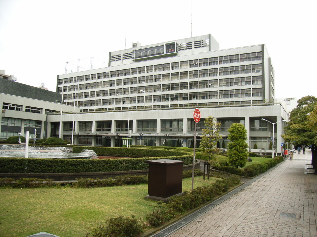 Sendai City Office. Sendai, Miyagi prefecture, Japan.